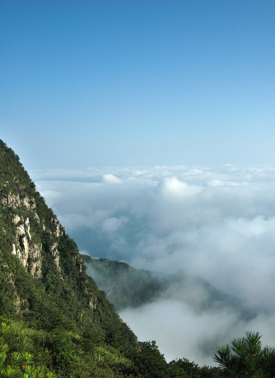 Baiyun Mountain in Fu'an, Fujian, China